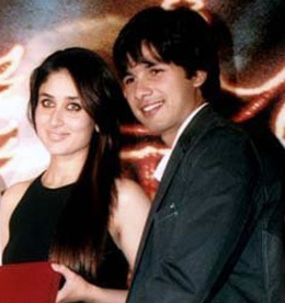 Indian actors Shahid Kapoor and Kareena Kapoor Khan at the audio launch of their 2006 film 36 China Town